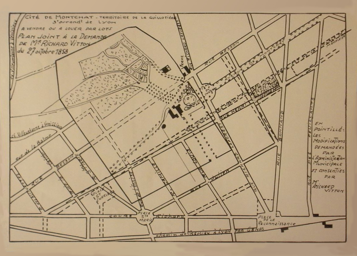 Plan of Montchat, Lyon, Rhône-Alpes, France